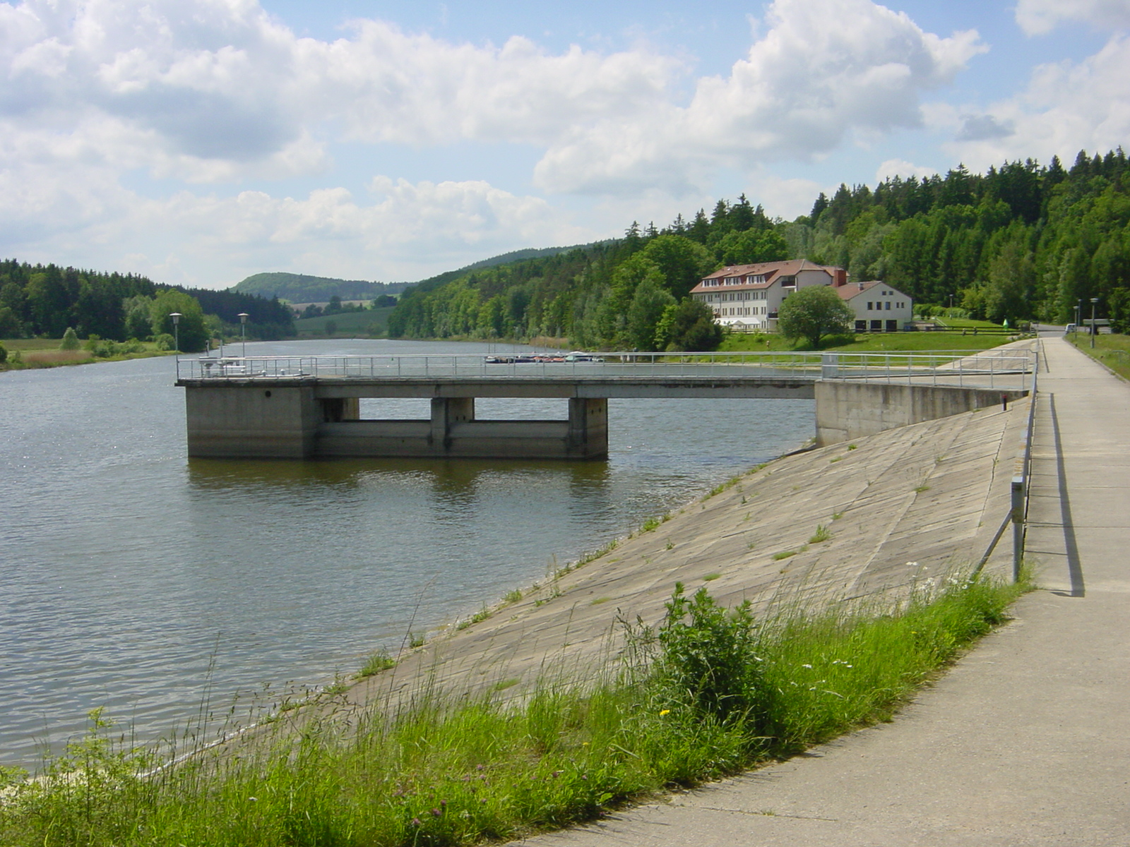 Heyda dam and reservoir, Thuringia, Germany